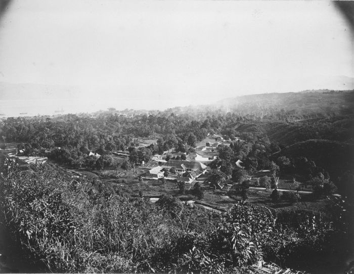 View over Amboina